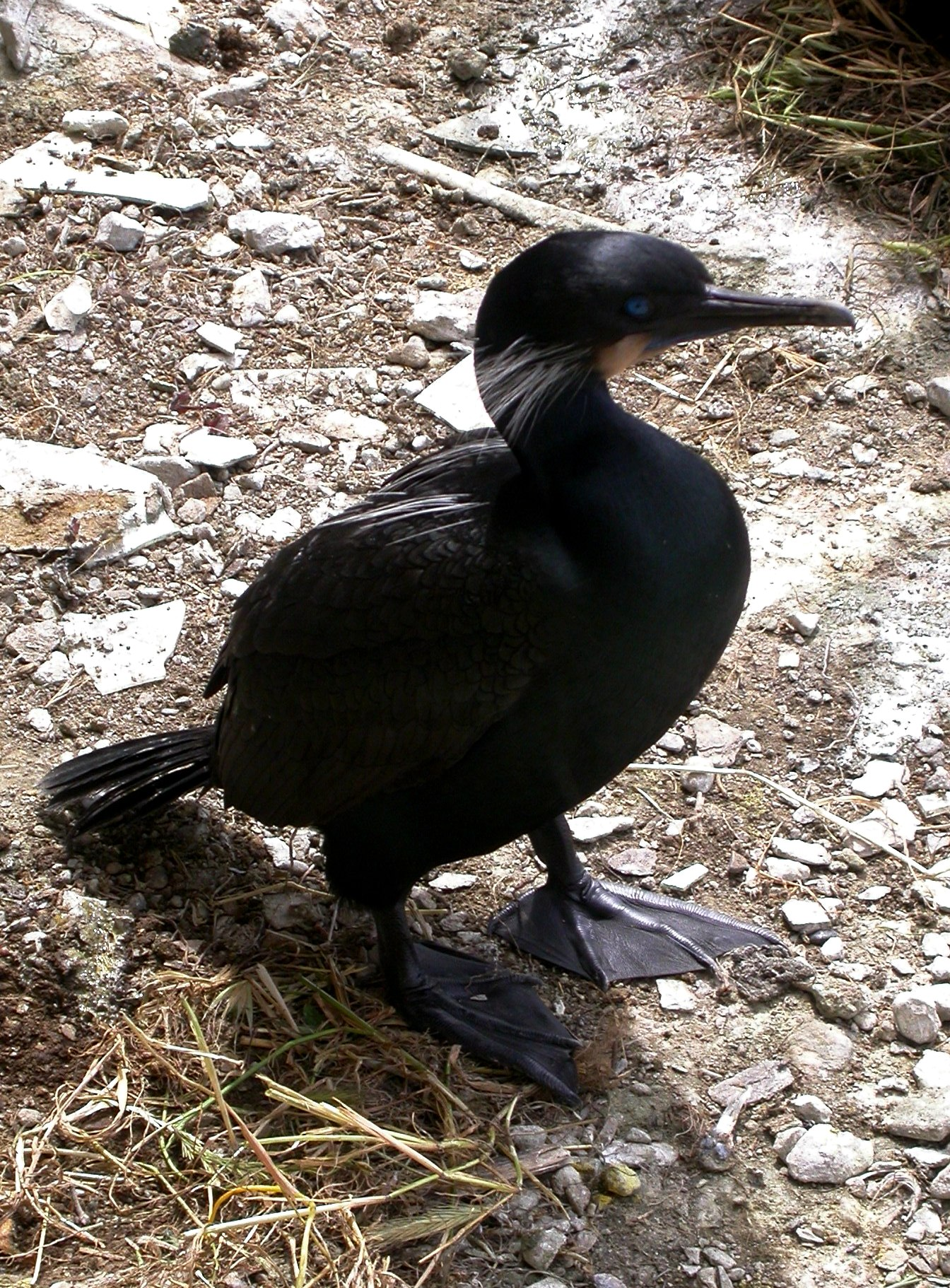 Brandt's Cormorant on Alcatraz Island in San Francisco in 2005. Taken by Duncan Wright.